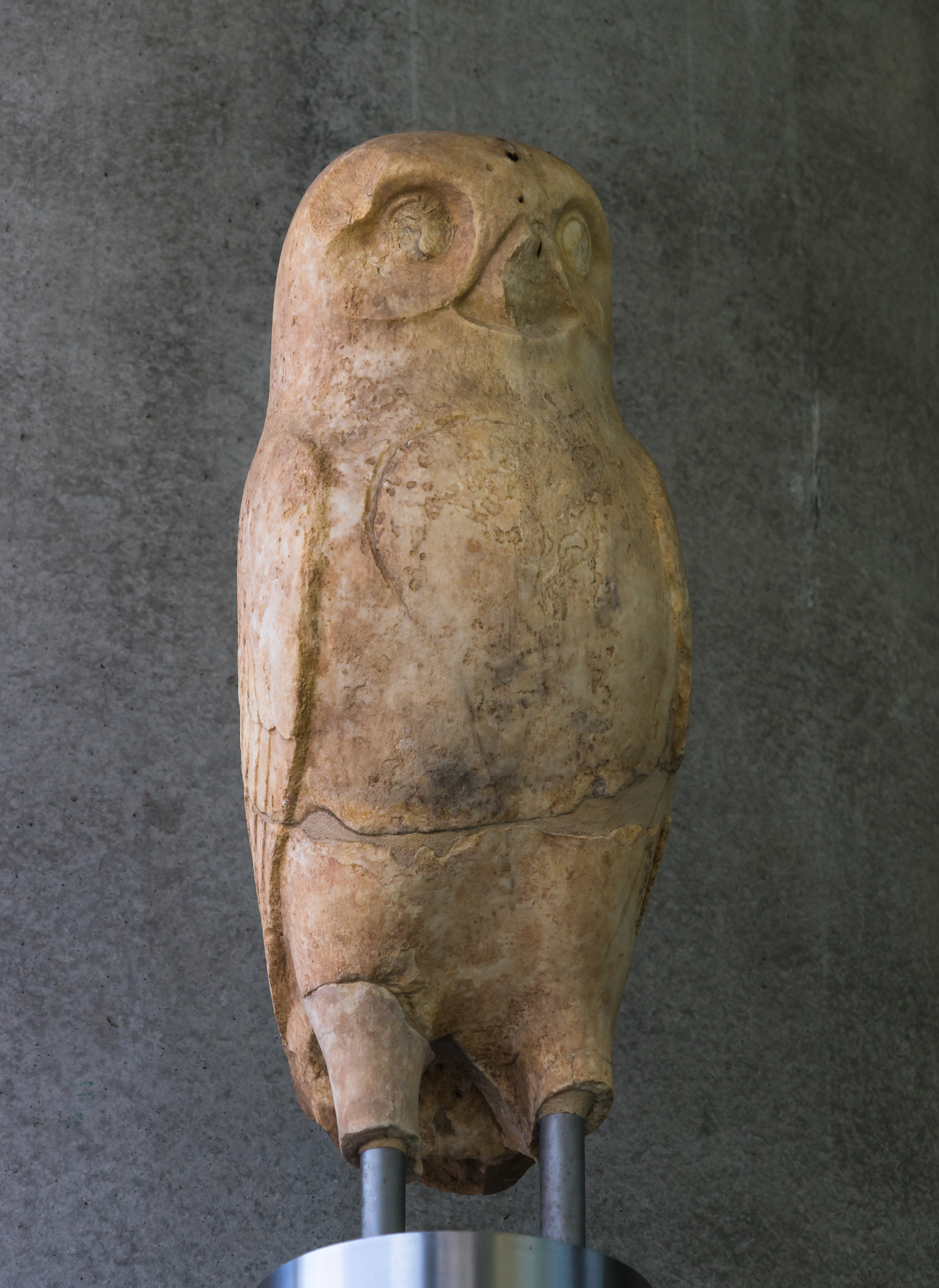 The Owl of Athena. Acropolis museum (Acr.1347), 5th-c.B.-C., Athens, Greece.«Ακρόπολη Αθηνών»